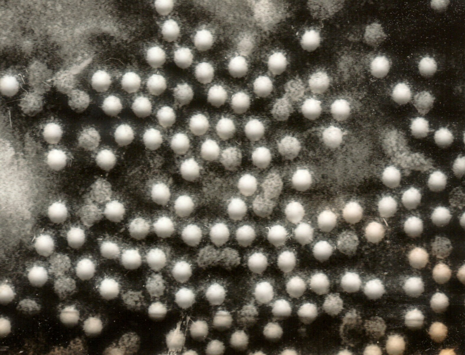 Transmission electron micrograph of Polioviruses